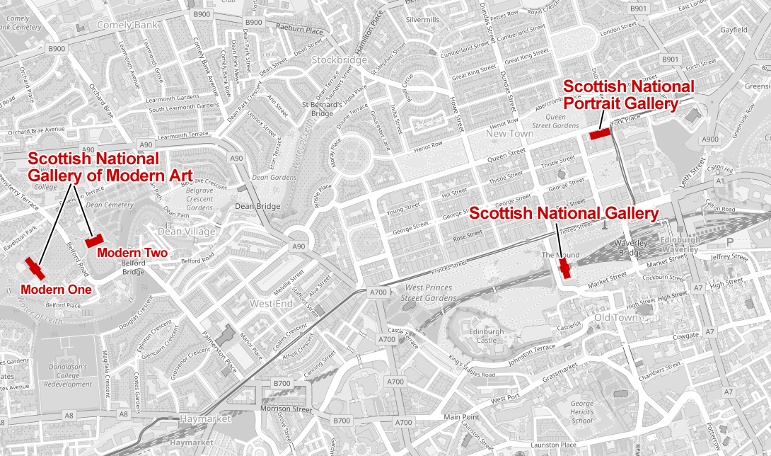 Map of central Edinburgh, Scotland, showing the locations of the three National Galleries of Scotland: the Scottish National Gallery, the Scottish National Gallery of Modern Art (One and Two) and the the Scottish National Portrait Gallery